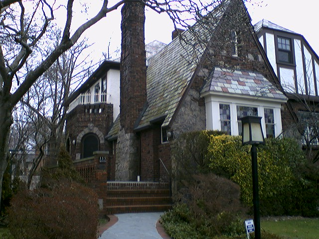 Another house on Manhattan Beach